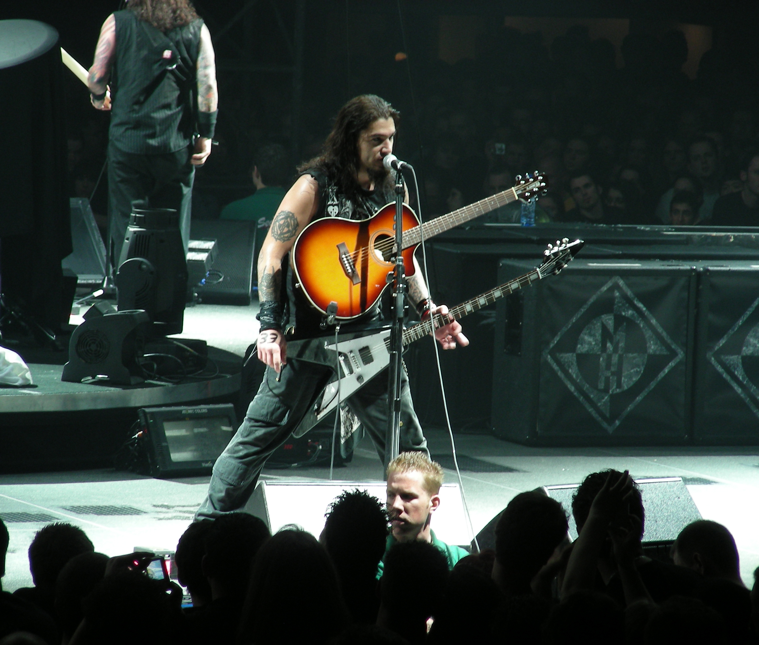 Robb Flynn of Machine Head at support band for Metallica concert on 2009-03-30 (Death Magnetic Tour, Ahoy Rotterdam)